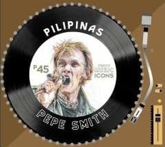 Philippine Music Icons